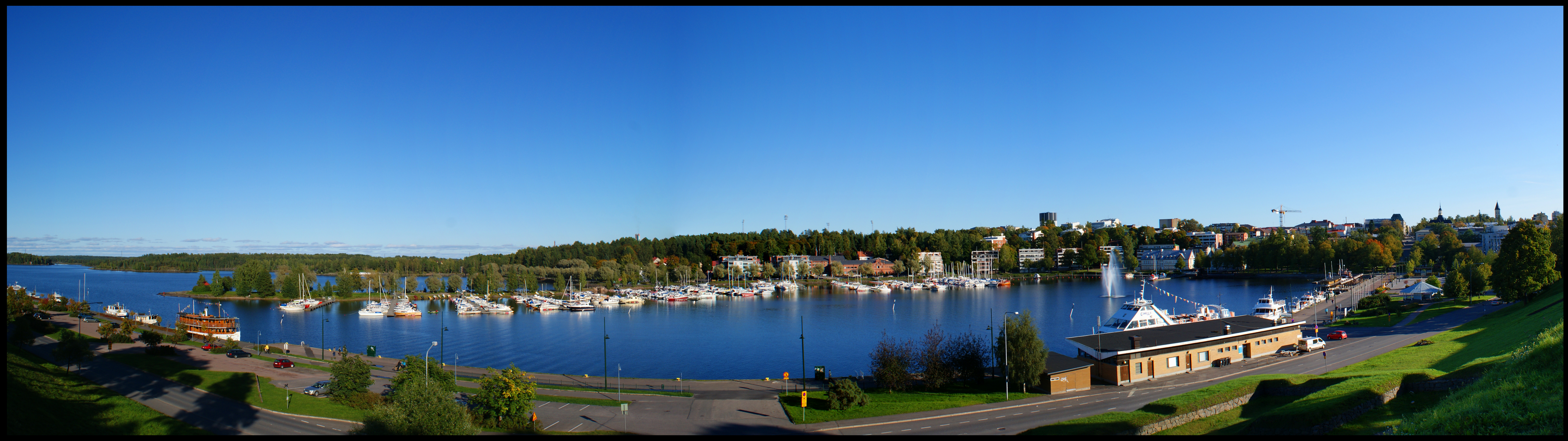 Lappeenranta harbour